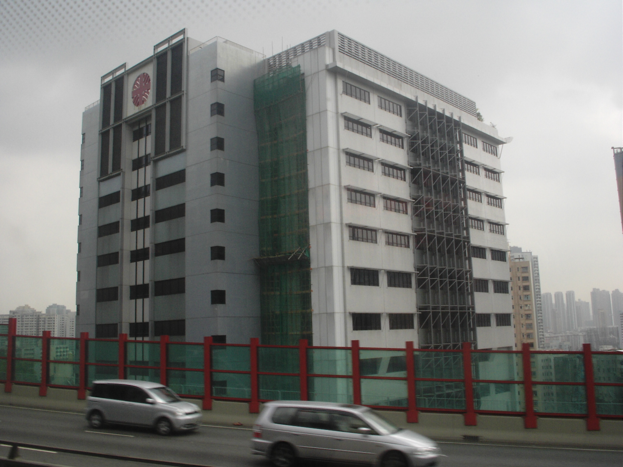 Wai Shun Block, Caritas Medical Centre